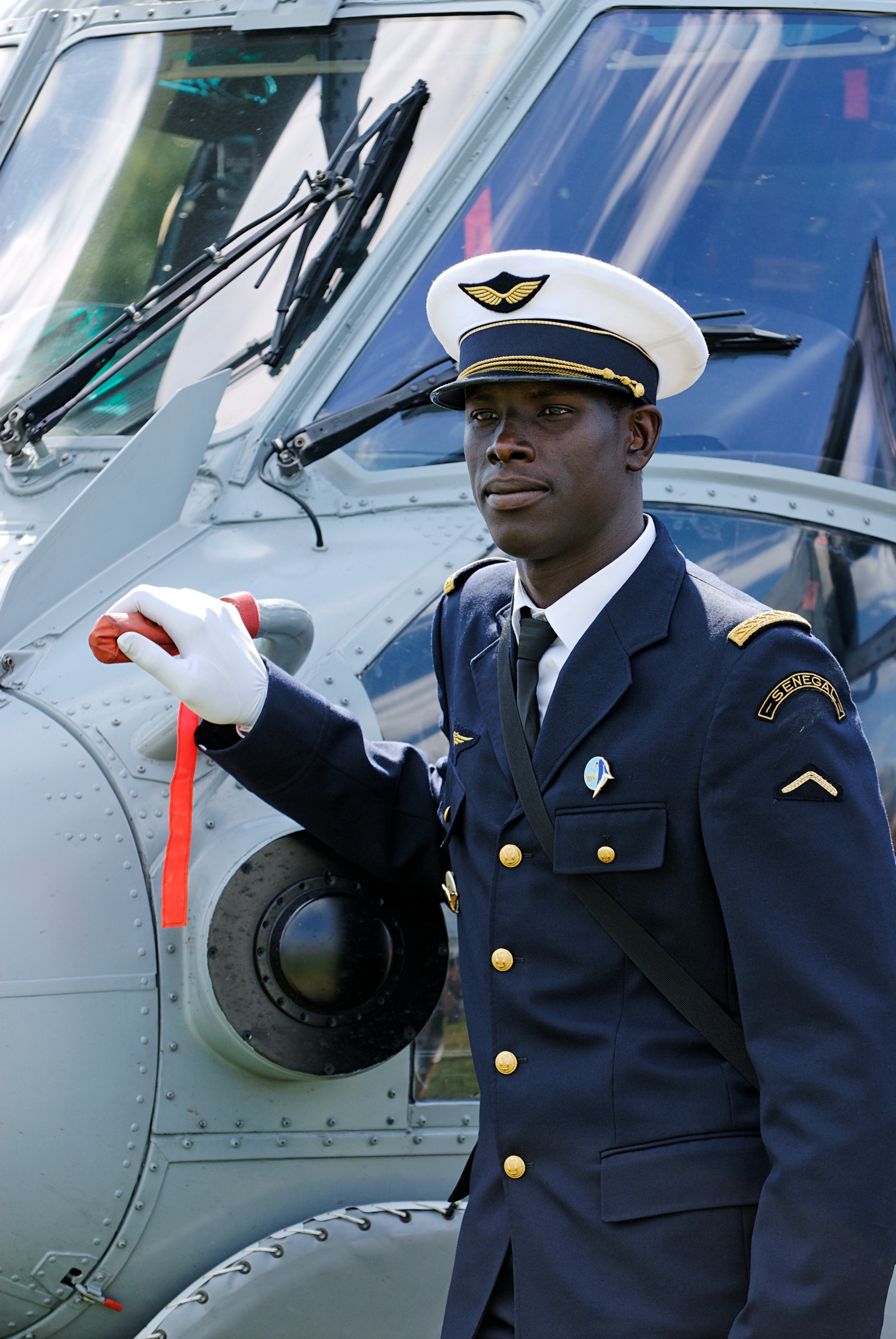 Foreign (Senegalese) cadet of the French Air Academy in front of an Eurocopter Cougar during the celebrations of Bastille Day 2008 in Paris.